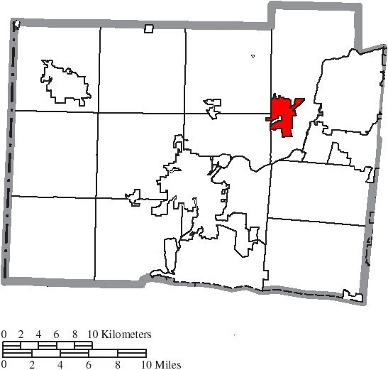 Map of the municipal and township boundaries of Butler County, Ohio, United States, as of the 2000 census, with the location of the city of Trenton highlighted. Township borders are shown only in unincorporated areas in order to differentiate incorporated and unincorporated areas more clearly.